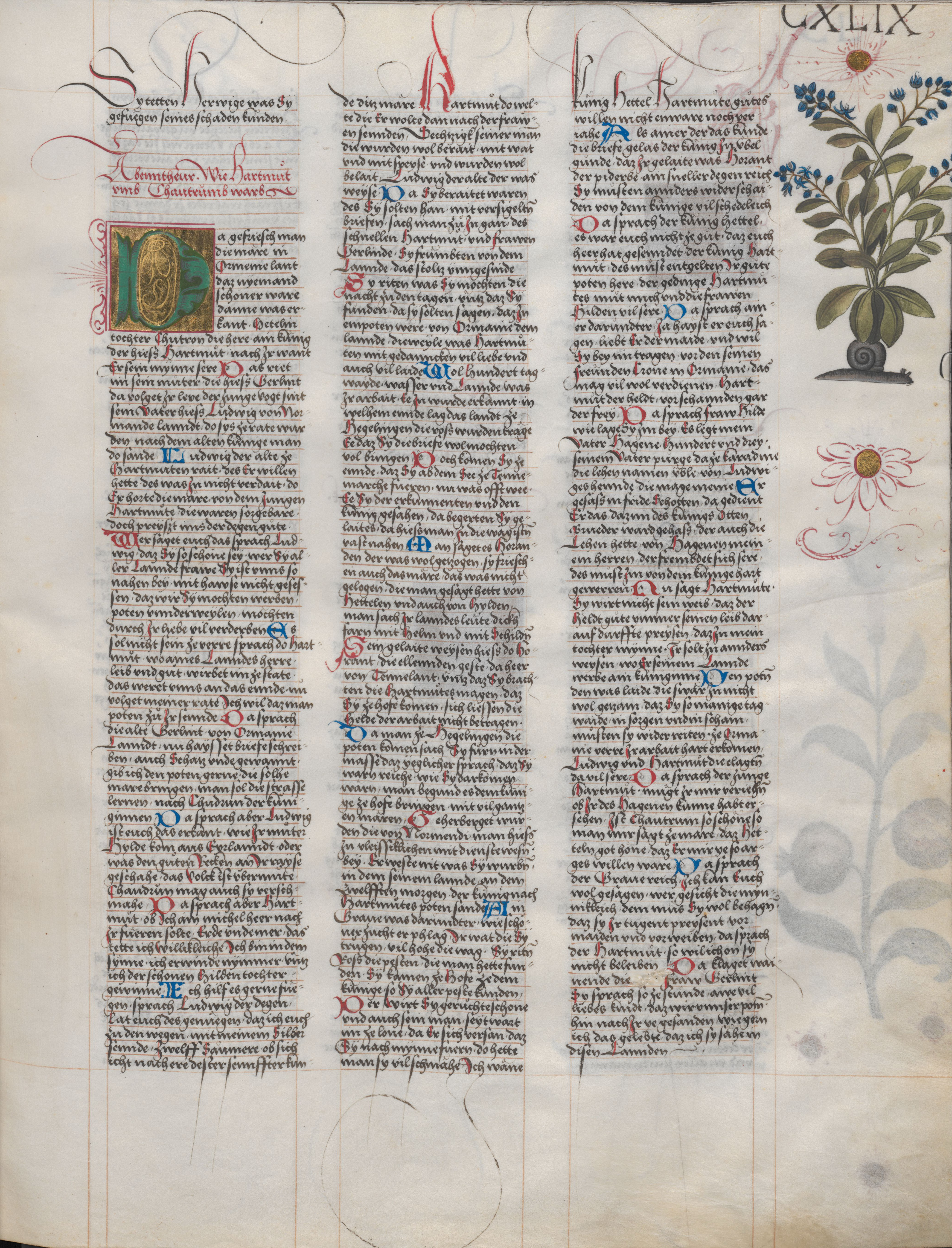 Page from the Ambraser Heldenbuch. Fol. 149r. The large initial marks the start of the 10th "Aventiure" of Kudrun.